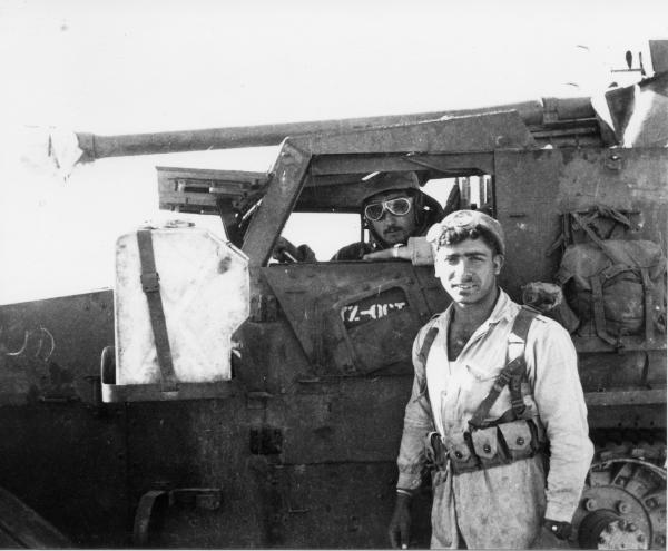 Members of the 89th Battalion during attack on Beit Gurvin, October 1948